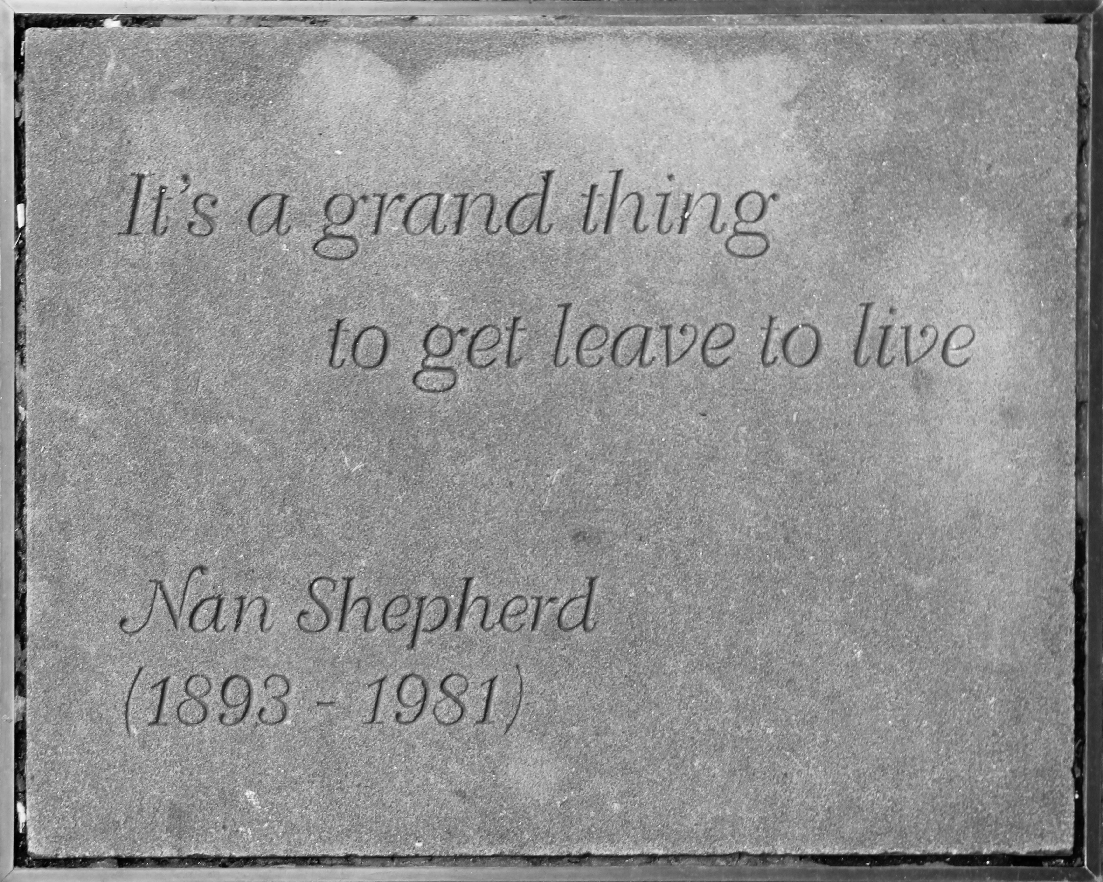 Nan Shepherd's stone slab on Makars' Court next to the Scottish Writers' Museum in Lady Stair's Close, Edinburgh, Scotland. The following quotation is taken from The Quarry Wood (1928): It’s a grand thing to get leave to live